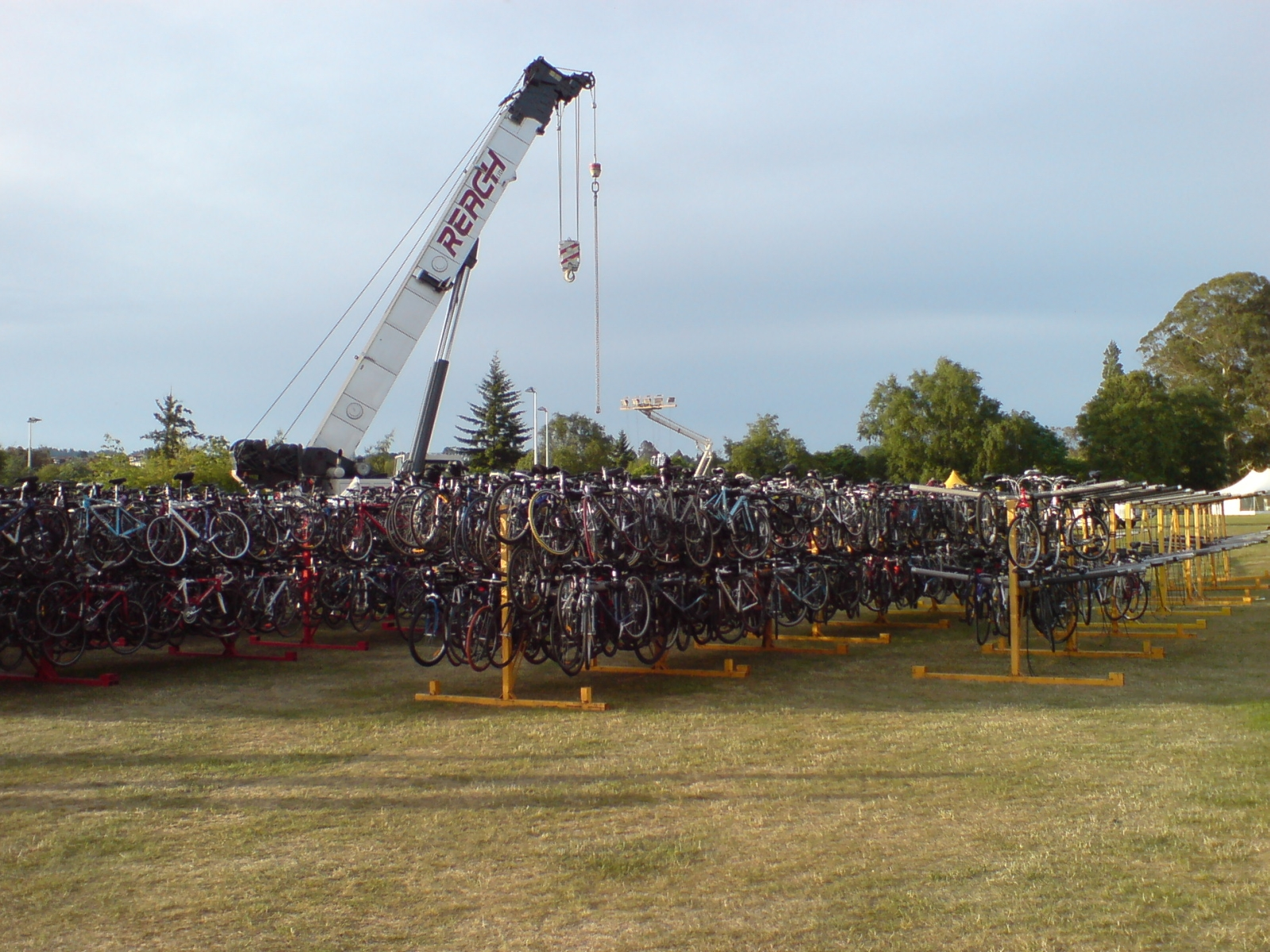 Lake Taupo Cycle Challenge 2007 - Friday evening, relay bikes being stored on massive racks for transport around Lake Taupo, New Zealand. The mobile crane will lift the racks (each loaded with what might be a hundred thousand dollars worth in bikes!) onto one of the many Total Transport flatbed trucks for transport to one of the three other relay stations.